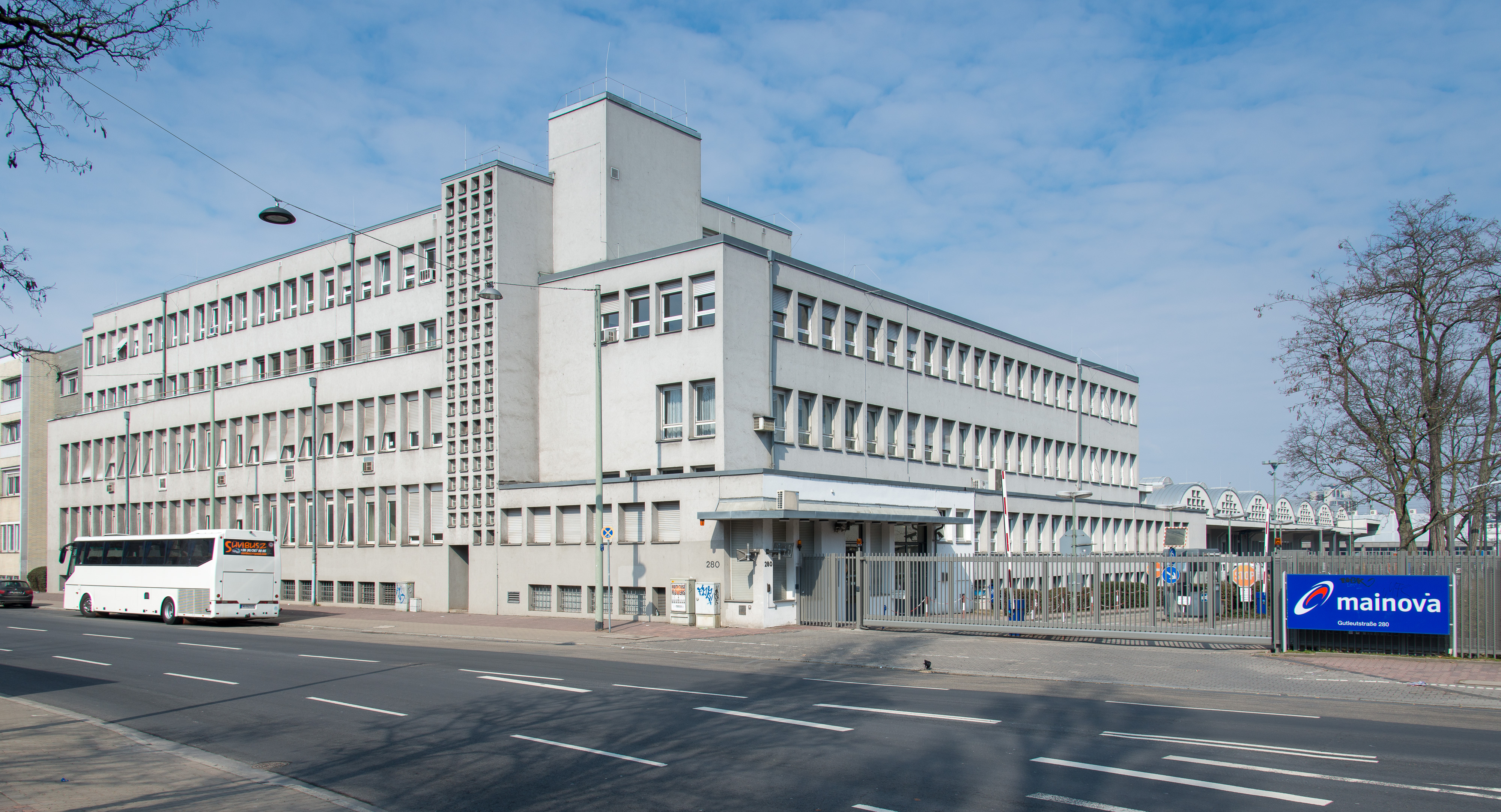 Frankfurt am Main, Gutleutstraße. Municipal Electricity Station (Städtisches Elektrizitätswerk). Cultural monument of the city from 1928/1929. Architect: Adolf Meyer